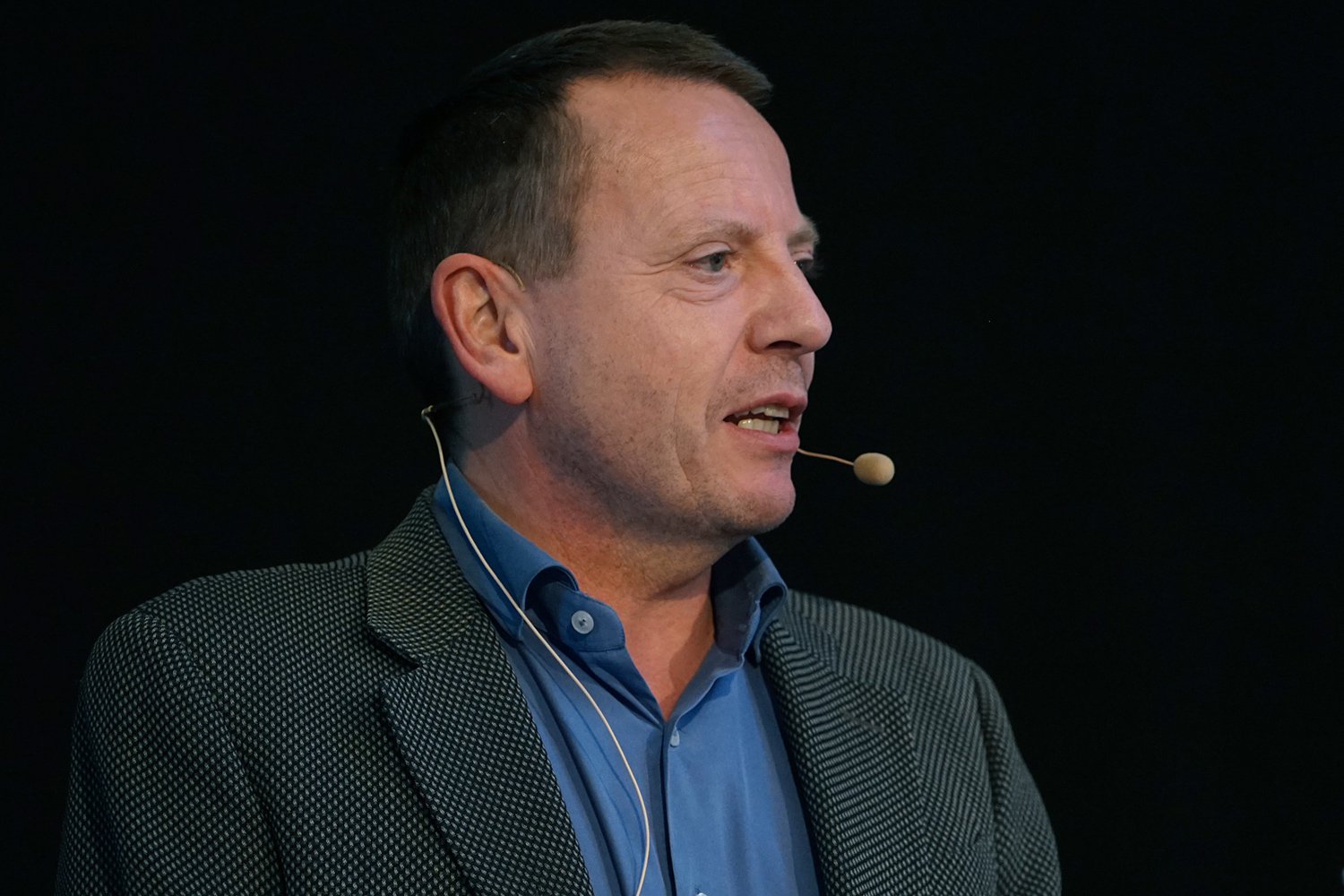 Poul Pilgaard Johnsen - Danish journalist and writer - at the historic event "Historiske Dage 2019", Copenhagen, Denmark